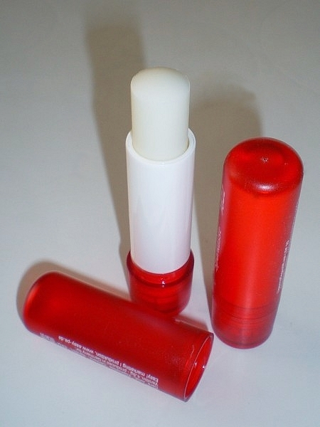 Lip Balm